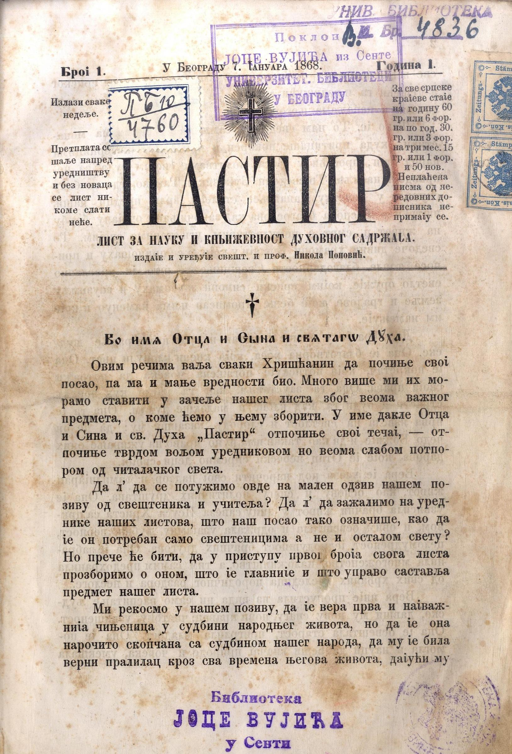 Cover of magazine Pastir, Number 1, 1868, Belgrade, Serbia Srpski (latinica): Naslovna strana lista Pastir, broj 1, 1868, Beograd, Srbija